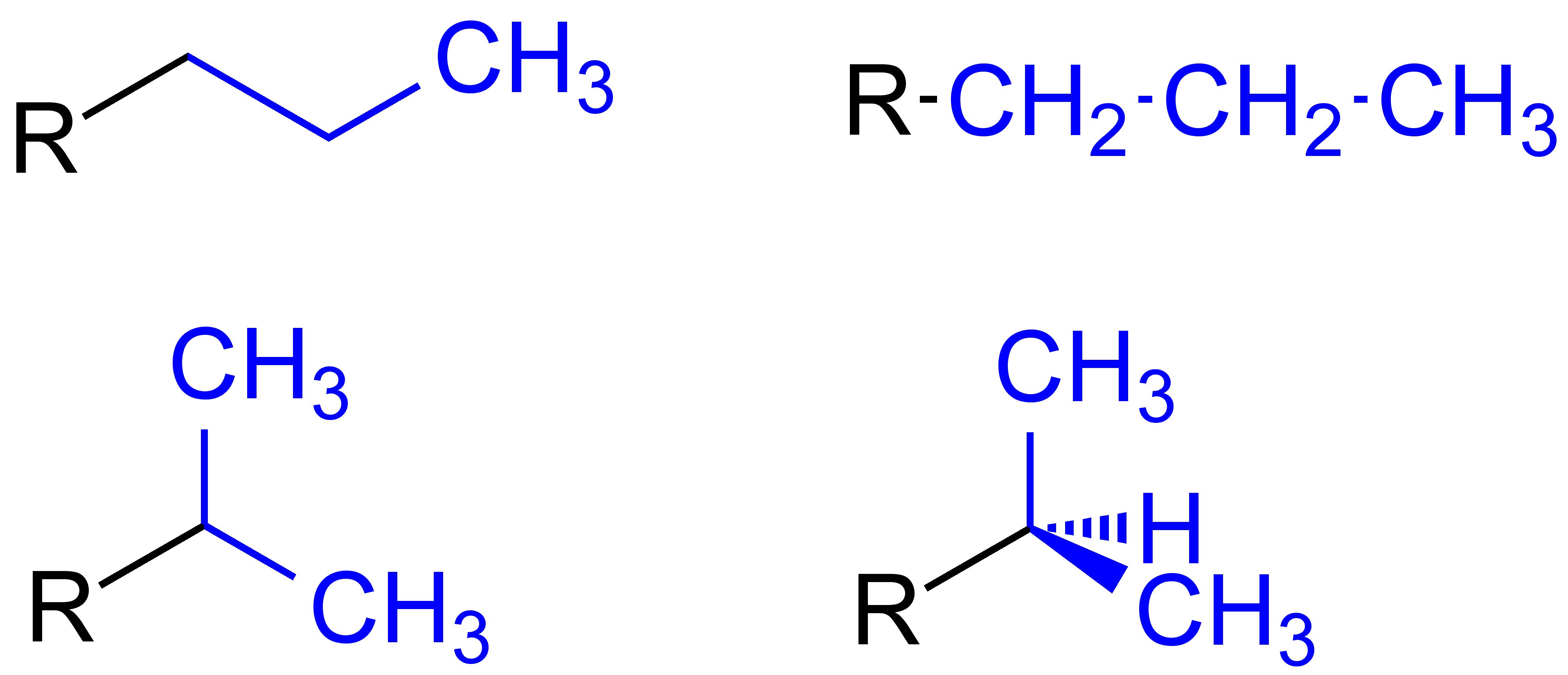 Propyl_Group_General_Formulae